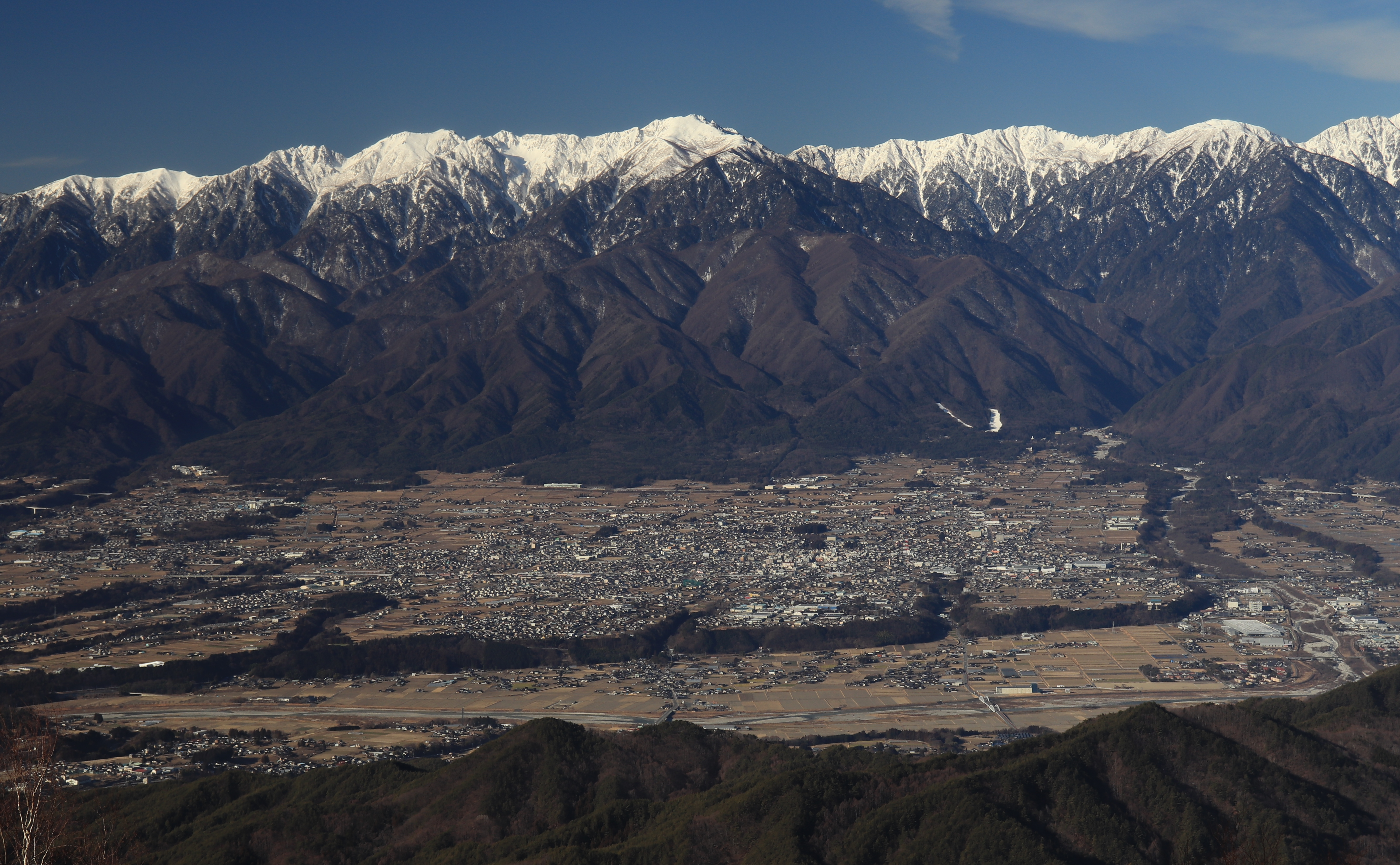 Komagane City and Kiso Mountains seen from Mount Tokura in Nagano Prefecture, Japan.